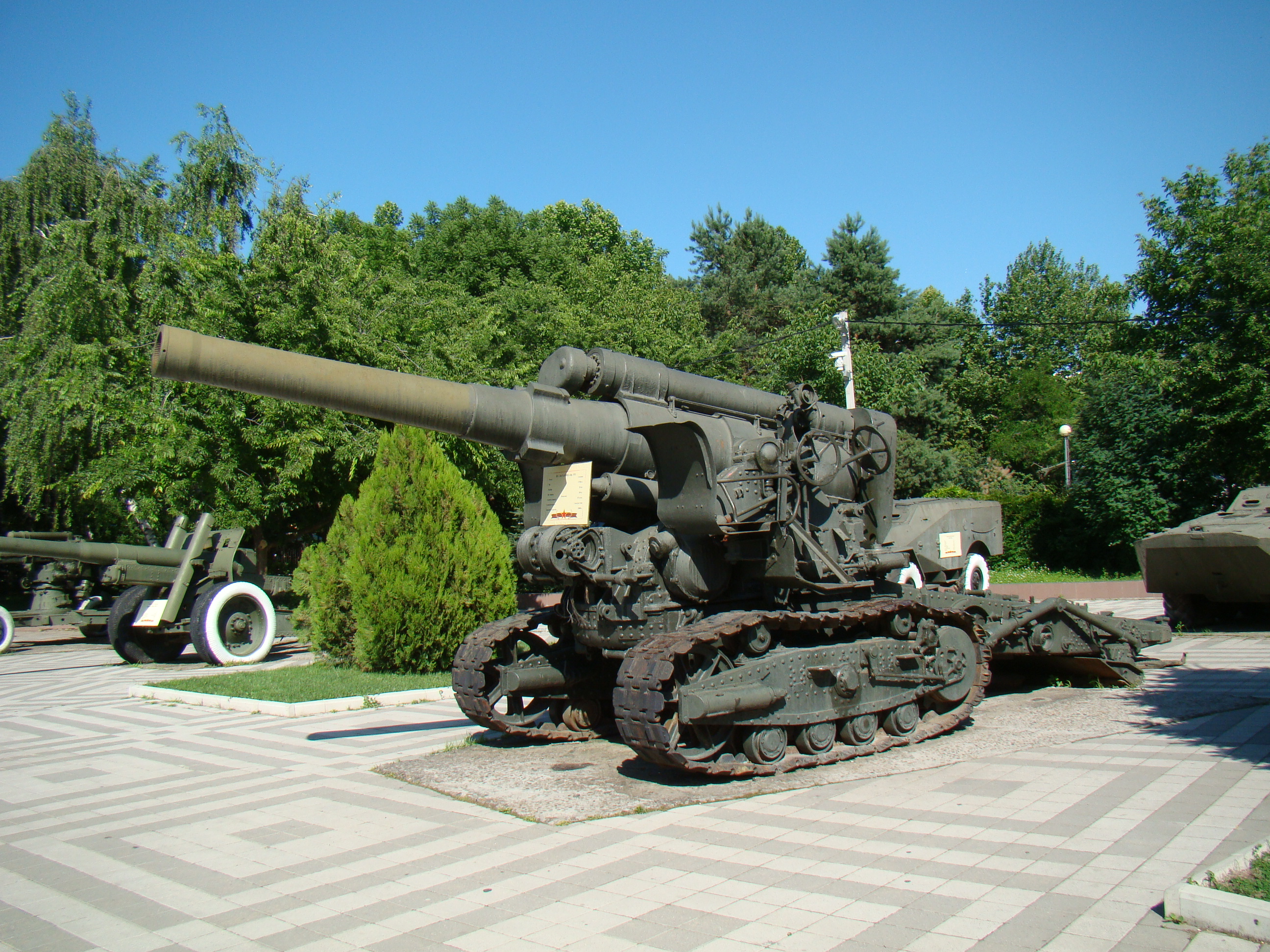 Музей военной техники "Оружие Победы". Парк культуры и отдыха имени 30-летия Победы, Краснодар. This file contains images of museum objects that are included in the Museum fund of the Russian Federation, or images of Russian museums buildings and symbols The Russian Museum Law, article 36, restricts anyone from: using images of museum objects and collections; buildings, museums and sites on museum grounds; and the names and symbols of museums; — on replicated products and consumer goods without authorization by the museum in question. English | русский | +/−